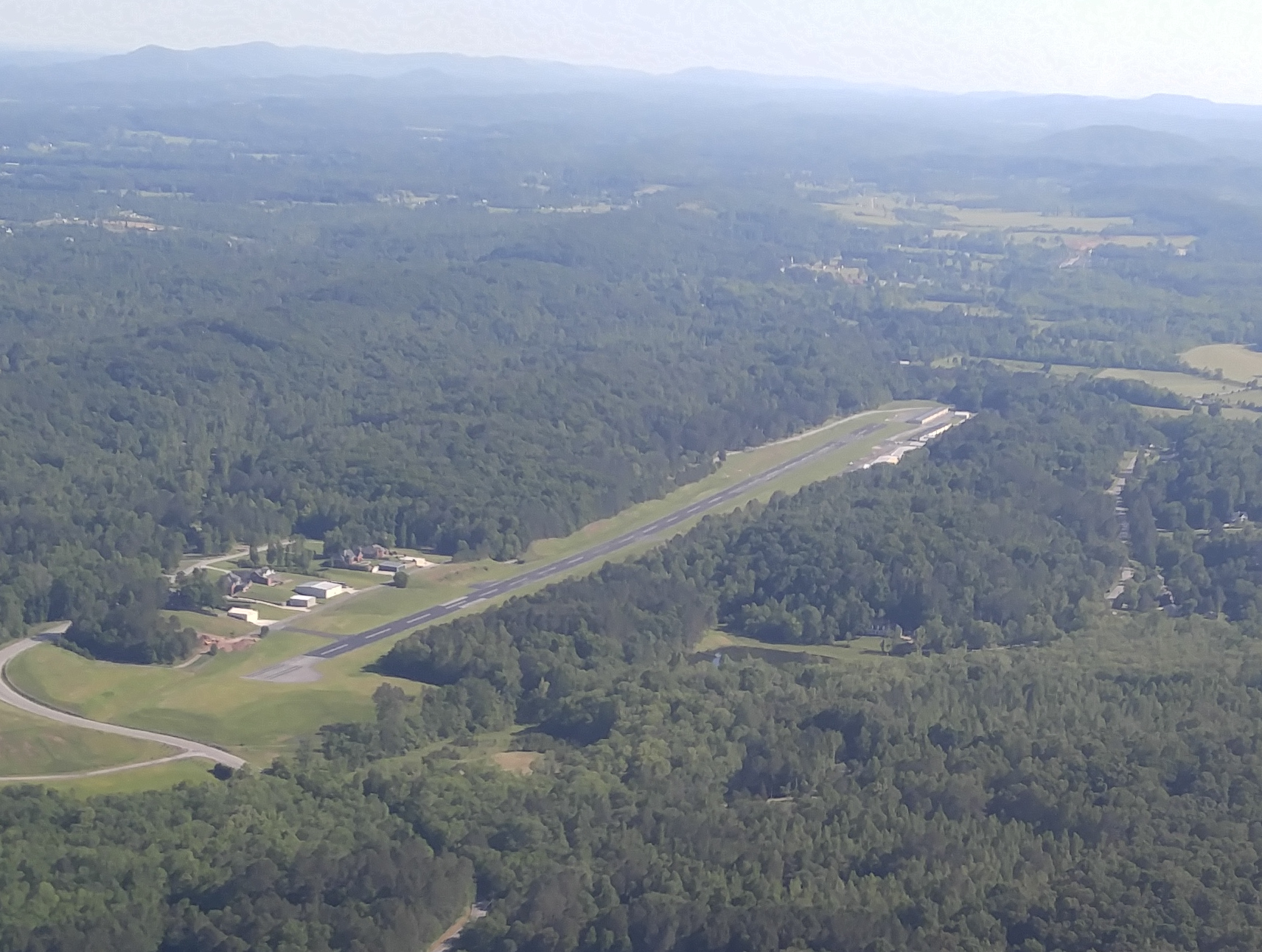 A picture of the Collegedale TN airport (KFGU) from the downwind leg of runway 3, looking at the end of runway 21.